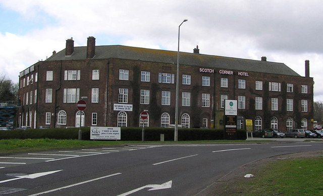 Scotch Corner Hotel. At the junction of the A1 and A66.